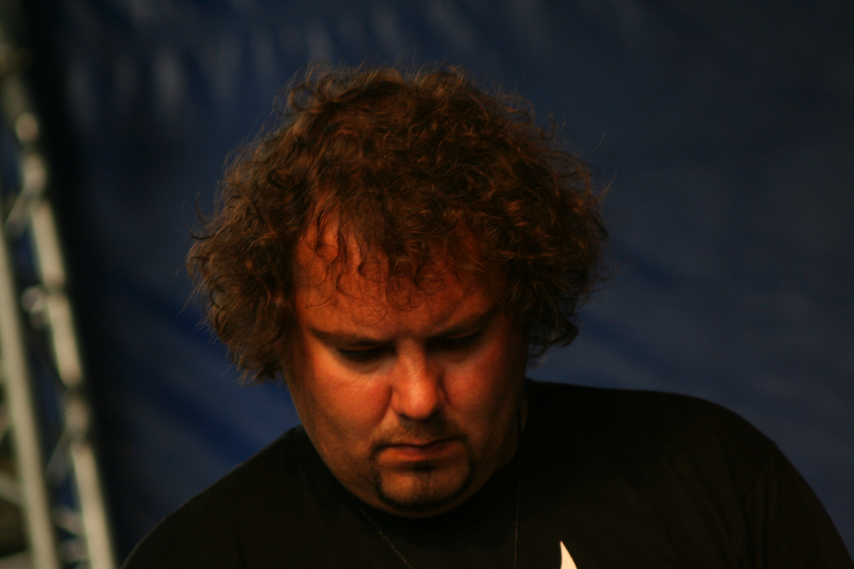 Castle Party 2007